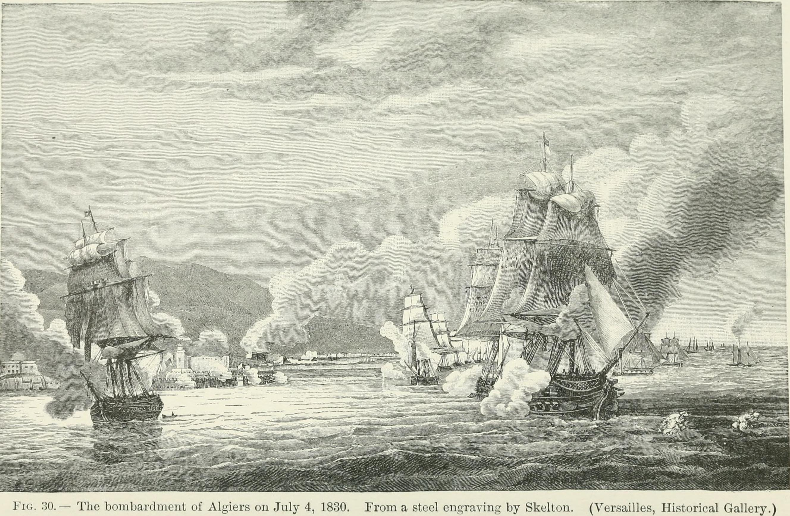 Title: A history of all nations from the earliest times; being a universal historical library Year: 1905 (1900s) Authors: Wright, John Henry, 1852-1908 Subjects: World history Publisher: (Philadelphia, New York : Lea Brothers & company Text Appearing Before Image: 4, by a five-hourscannonading, and blown up, the dey surrendered. The ministry had delayed with the dissolution of the chambersuntil May 16, for the purpose of having the news of victory fromAlgiers for the new elections. This, however, failed completely ofthe intended effect. The ministry suffered, in the bitter electoralcontest, a shameful defeat; and the triumph of the opposition farexceeded their hopes. Of the 221 who voted for the late address,not less than 202 were re-elected. But with the joy of tlie Liberalsover the victory were mingled anxious fears as to the future action Vol. XVIII.—10 146 INTERNAL HISTORY OF FRANCE FROM 1815 TO 1830. Text Appearing After Image: TUE FIVE ORDINANCES OF JULY 26, 1830. 147 of the court; for now it seemed that the coup dStat, so long in theair, must come. From foreign courts, however, there came warningsto the king; and the nuncio Lambruschini was the only one whourged him onward. Metternich, on the contrary, and even the Em-peror Nicholas, advised earnestly against a violation of the charter.In vain ; nrarow and obstinate as Charles X. was, he did not compre-hend wliy he should not succeed in that which had been done soeasily by Dom Miguel in Portugal. But Poligiiac believed, with allseriousness, that he had promptings from above; and, confiding inthe immediate help of heaven, he neglected to make any arrangementfor defeating a possible opposition. The sole care of both was toguard the secret; and in childish glee they pleased themselves withthe thought of the stunning effect with which the lightning wouldstrike. To foreign diplomatists Charles denied the long settled pur-pose of a coup detat, and to the deputie